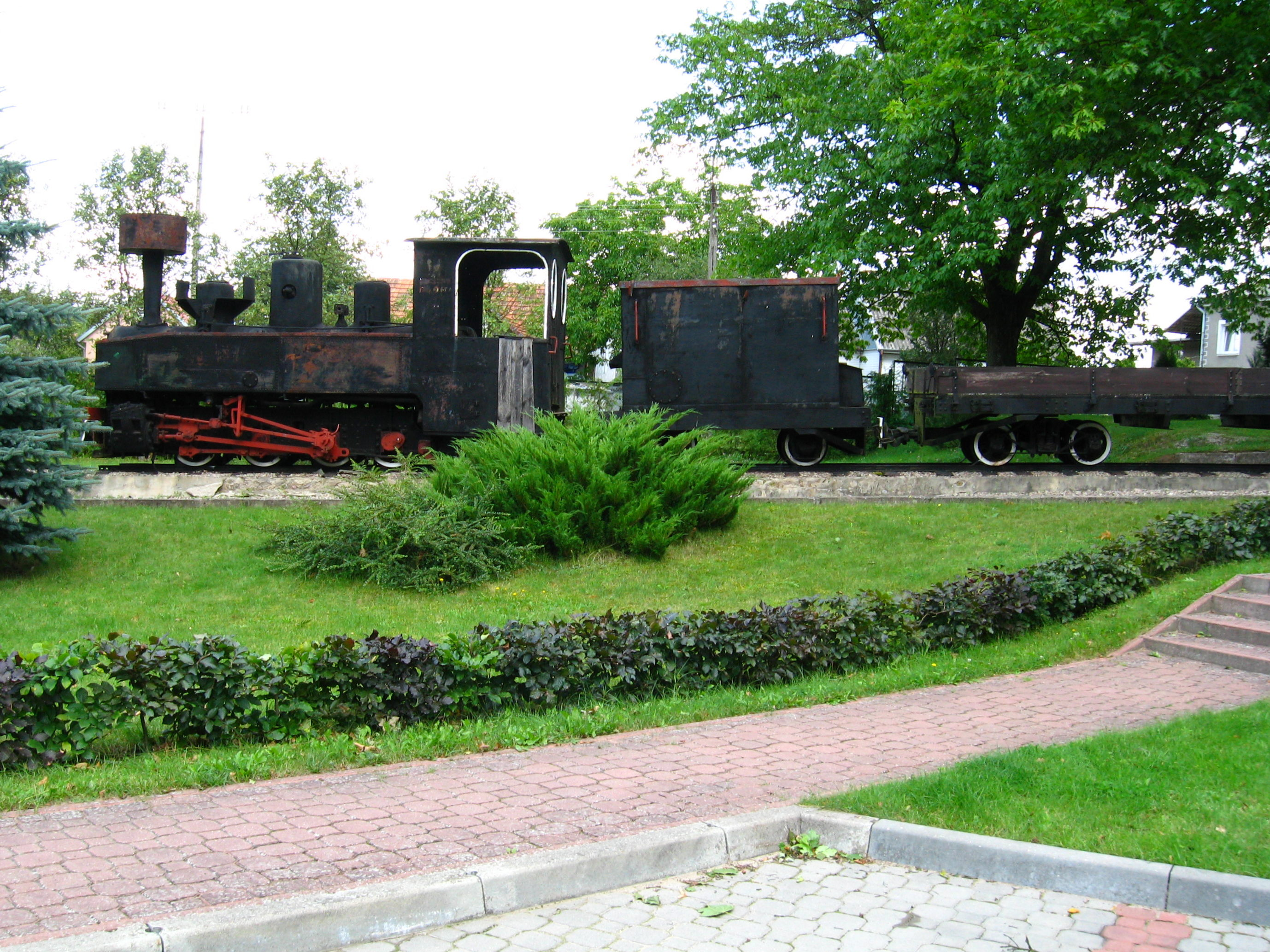 Knyszyn Forest narrow gauge railroad train; Brigadelok Dn2t locomotive